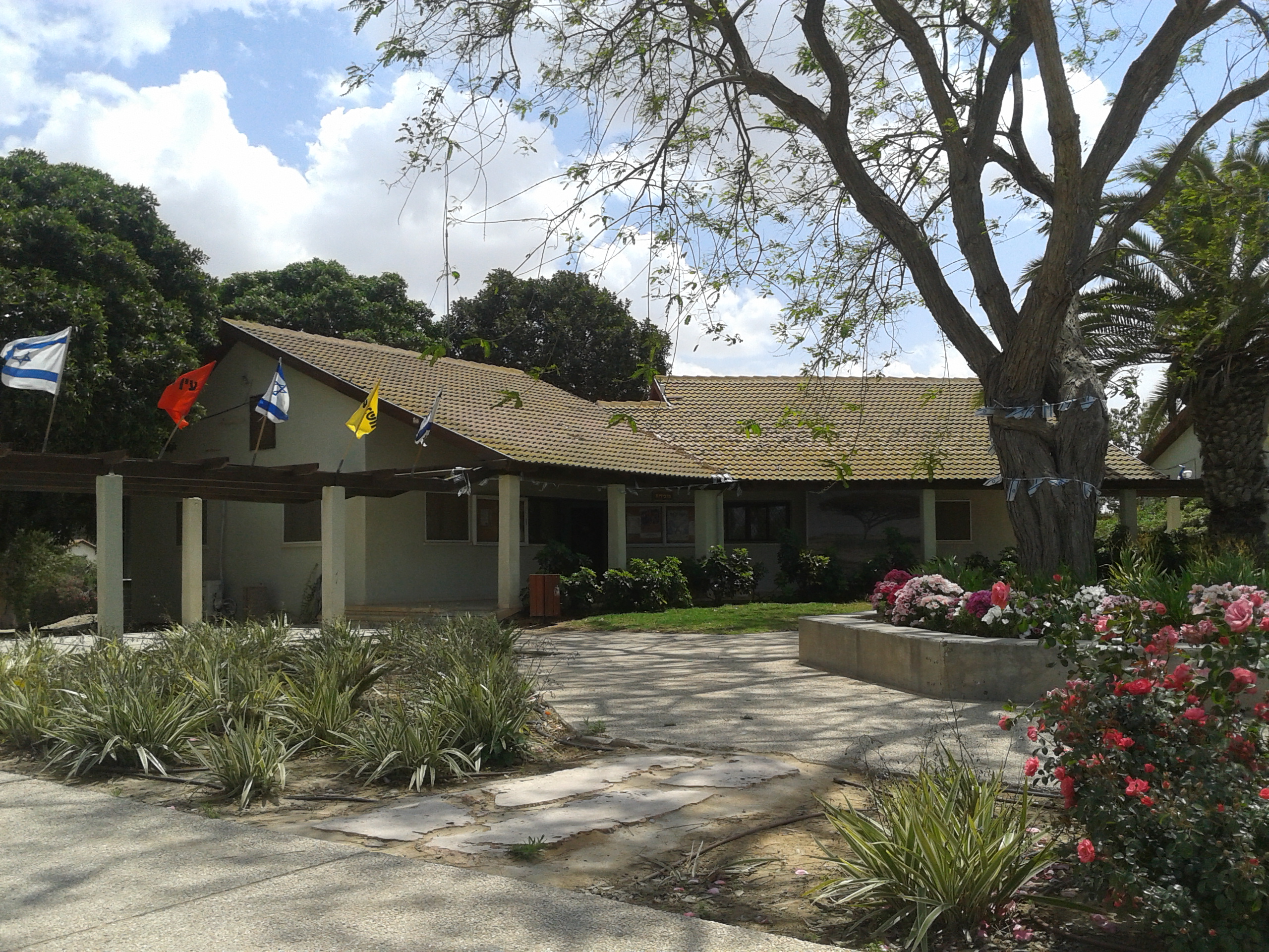 Secretariat of Ein HaBesor